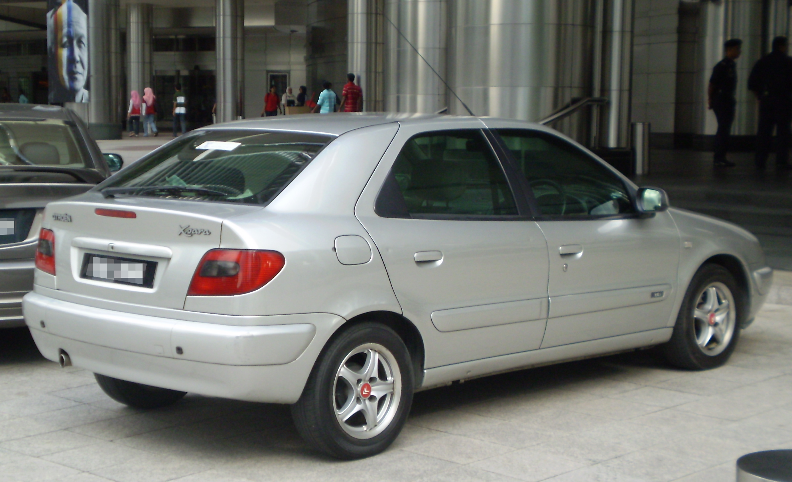 Rear quarter view of a first generation Citroën Xsara, in the KLCC, Kuala Lumpur, Malaysia.